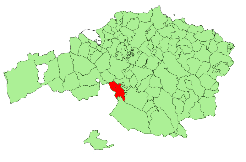 Arrankudiaga municipality in the province of Biscay